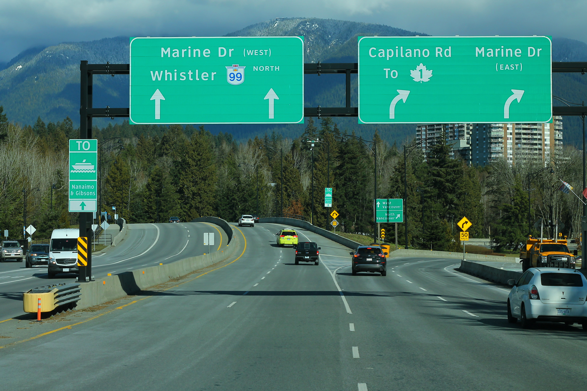 BC99nRoad-ToTCH1-BC99signs